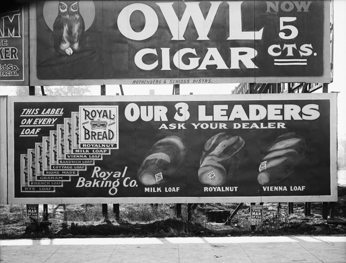 Utah Bill Posting Company billboards, 1908, Salt Lake City, Utah; Commercial photo taken on assignment, published circa 1908